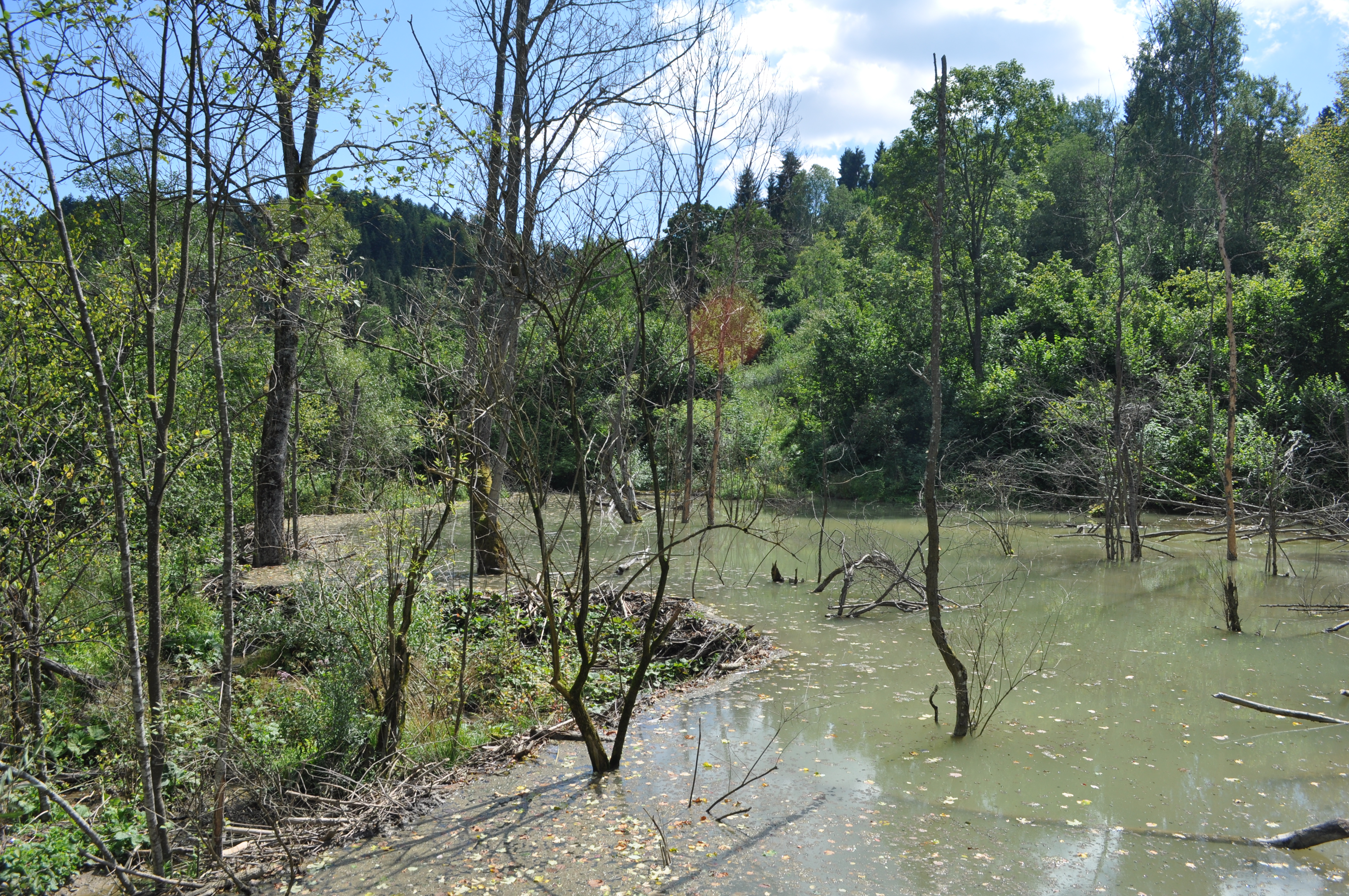 Beaver dam near Łopienka